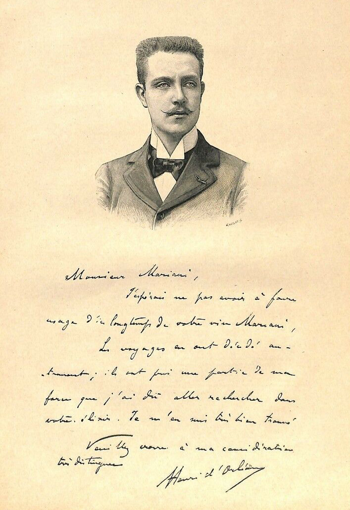 French explorer Henri d'Orléans (1867-1901) by Adolphe Lalauze (1838-1905)